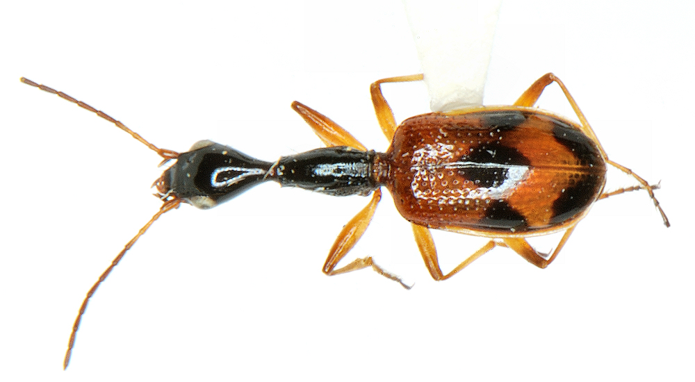 Specimen of a carabid beetle, Colliuris pensylvanica (Linnaeus), collected in USA: Connecticut: West Haven, 7-May-1985, collector M.K. Oliver, in collection of same.